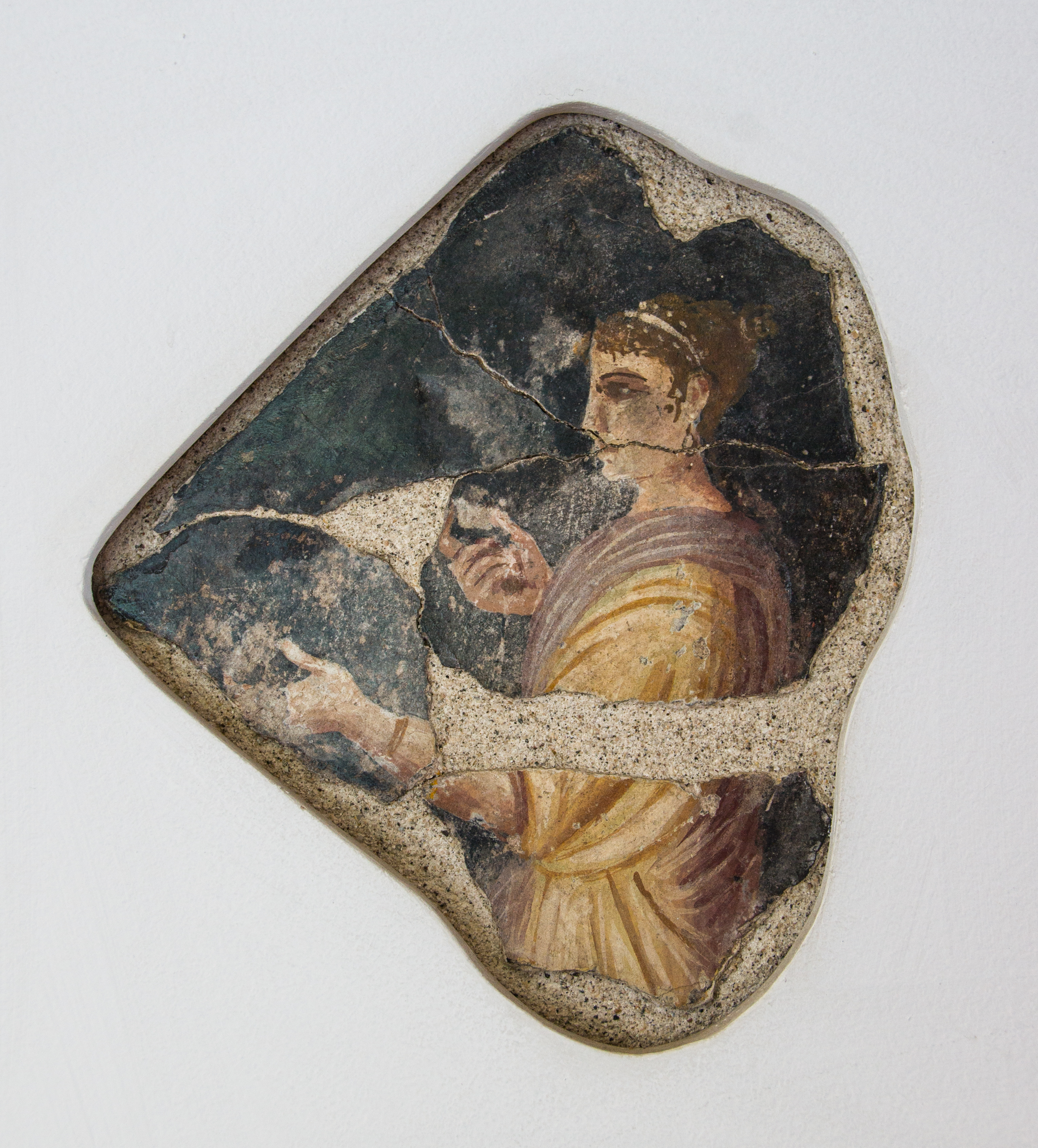 Fragment of a fresco wall decoration from the upper floor of the "Villa Pisanella", featuring a woman on a black background presenting fruits. End of the second style, beginning of the third, (40 - 20 BCE)